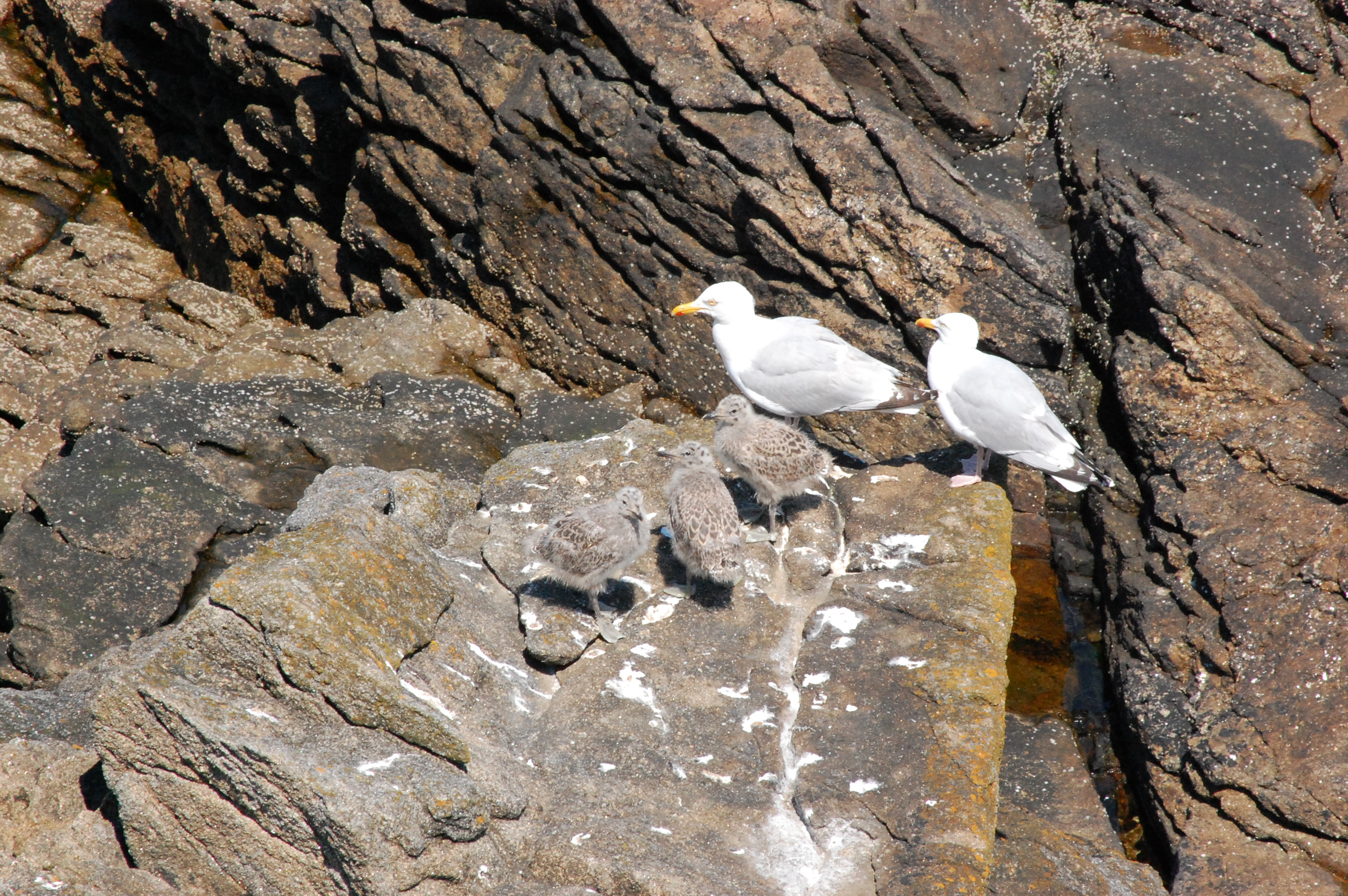 Larus argentatus (European Herring Gull) and juvenile